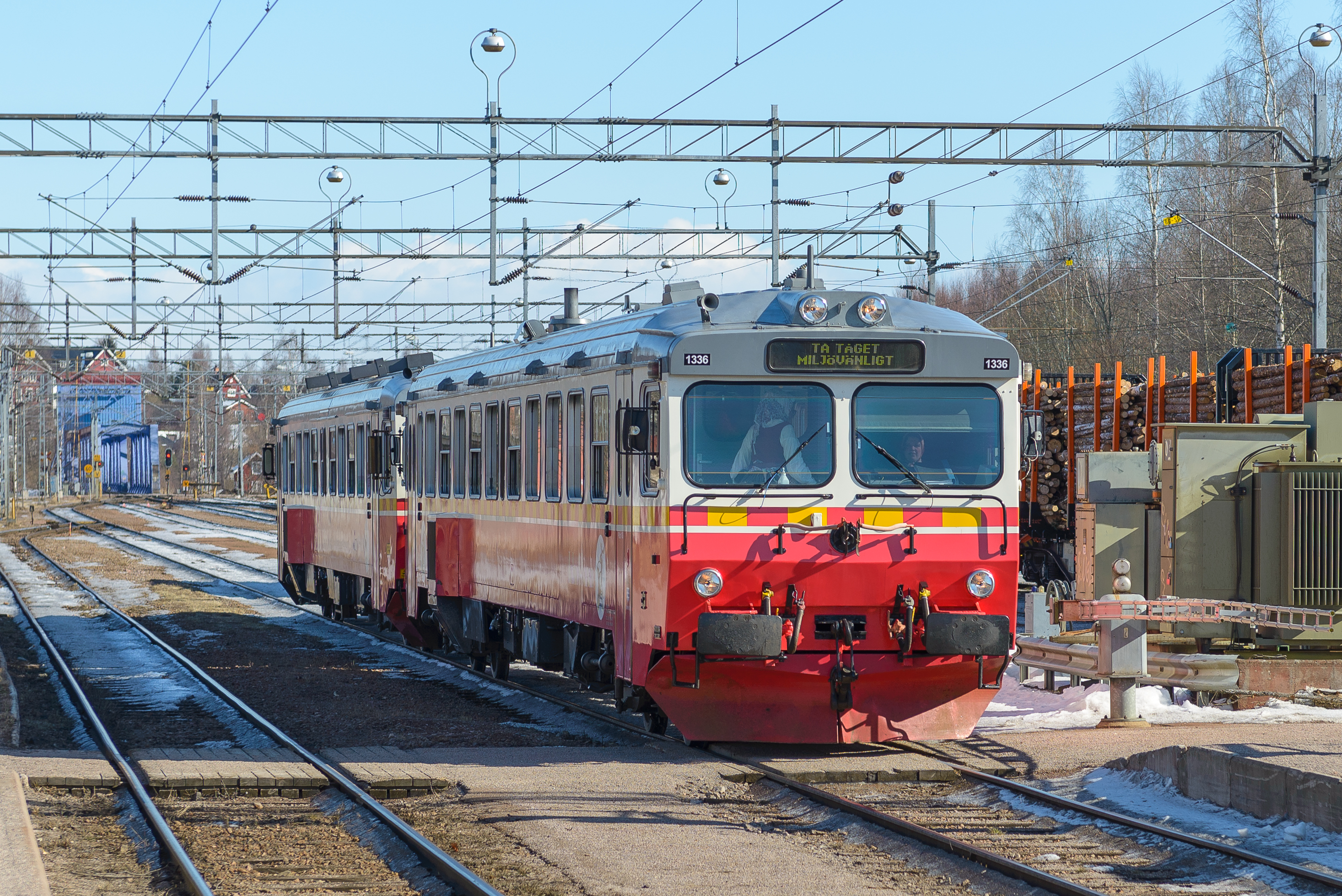 Y1-train from Inlandsbanan at Mora station.